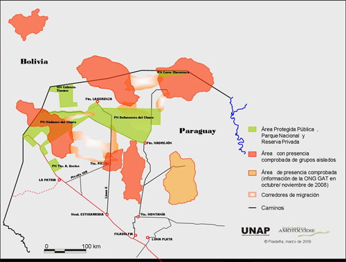 map of areas of the Paraguay Chaco, where hints of presence of small bands of uncontacted Ayoreo Indians were found, as of 2009, indicated in red